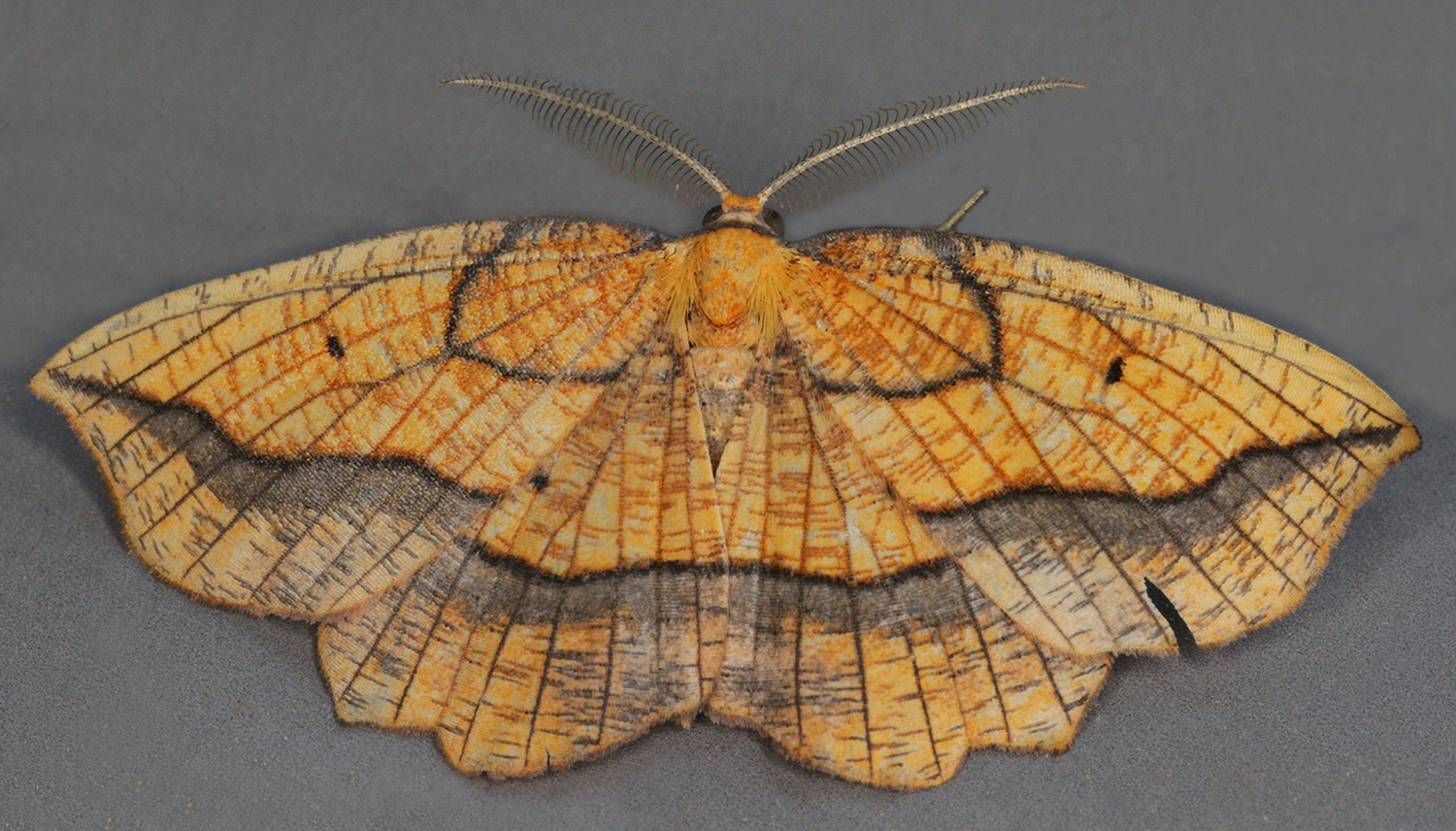 Epione repandaria, Bordered Beauty, Trawscoed, North Wales, Aug 2013